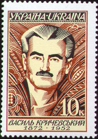 Stamp of Ukraine